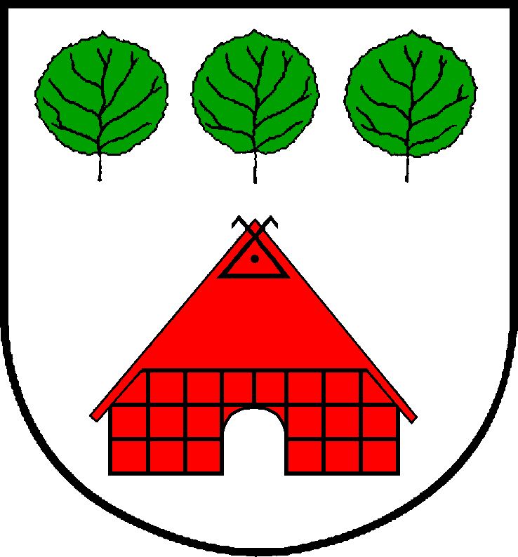 Coat of arms of the municipality Krogaspe in Schleswig-Holstein, Germany.